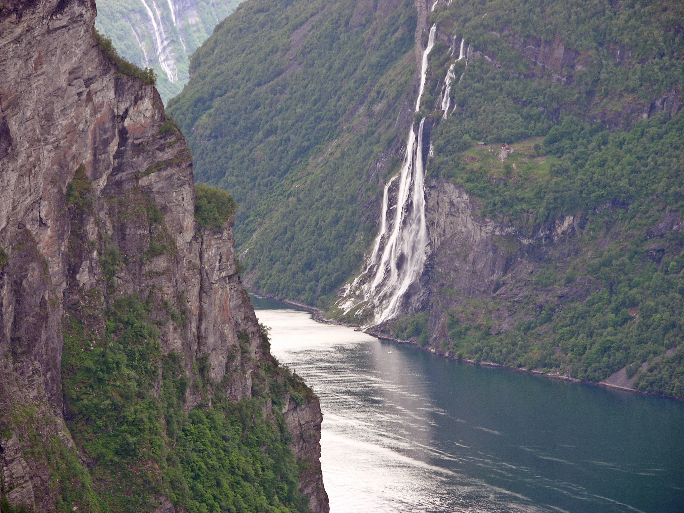 Waterfall called the Seven Sisters in Geirangerfjord, Norway.